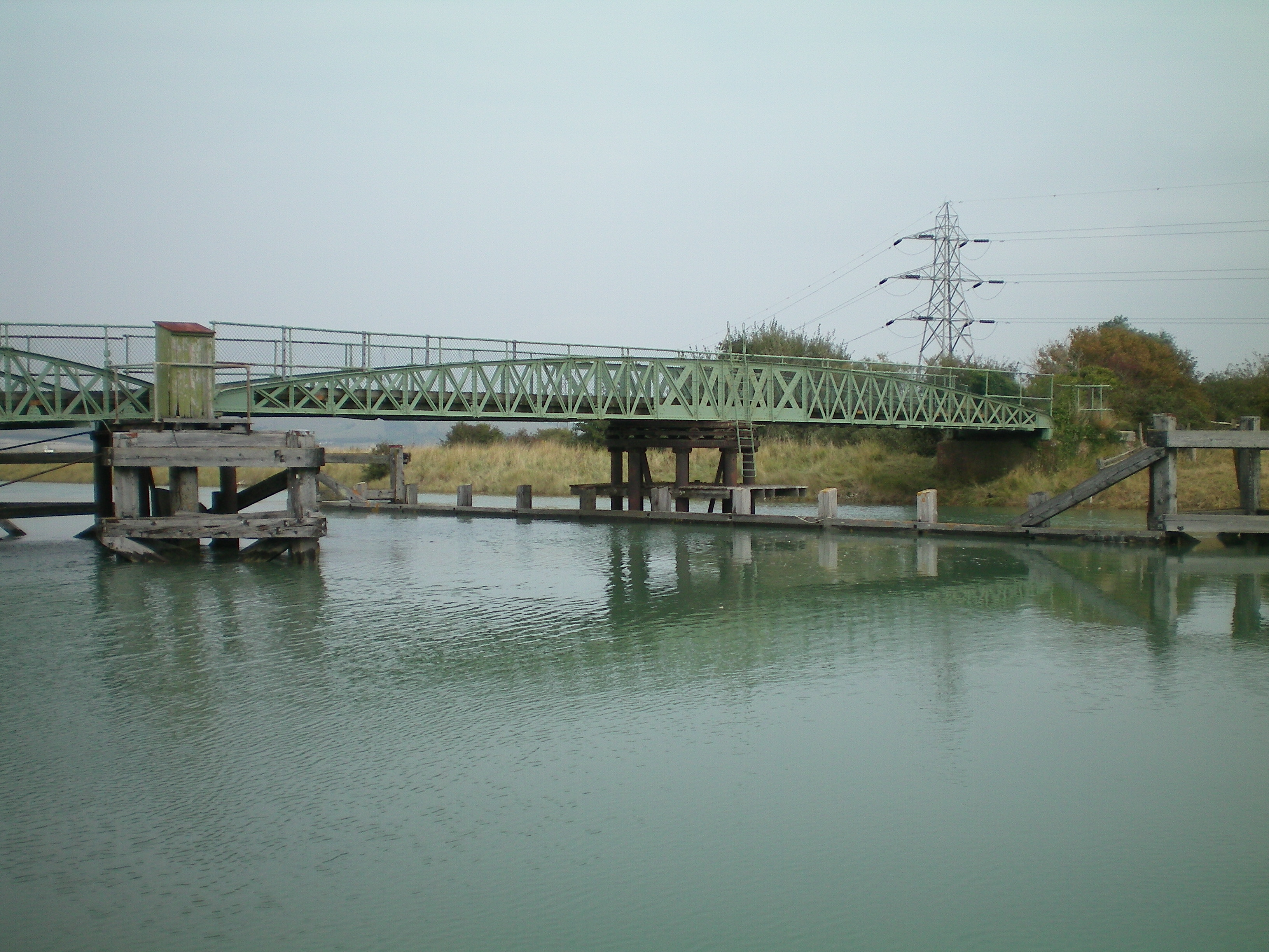 Swing bridge across the Sussex River Ouse at Southease.